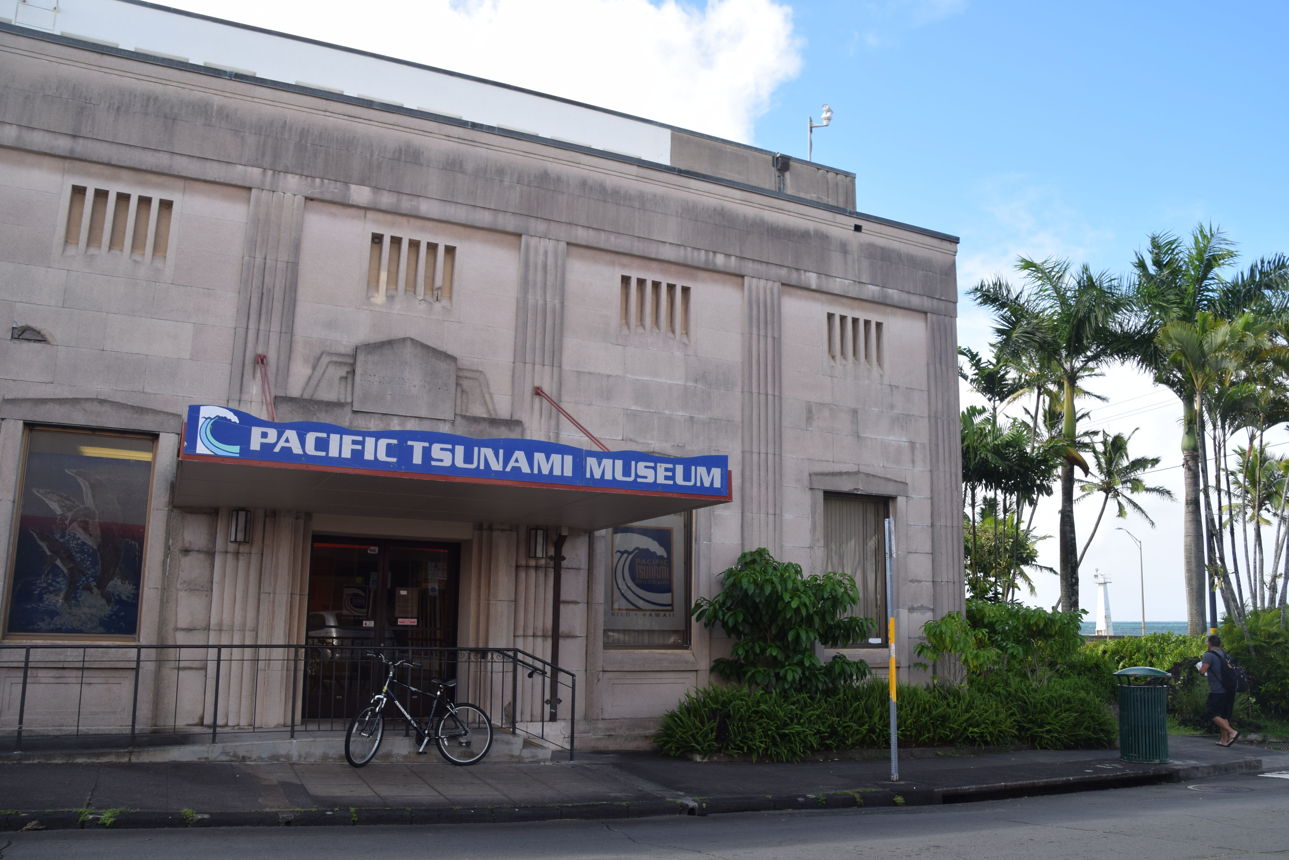 Pacific Tsunami Museum, Hilo, Hawaii, USA - Outside